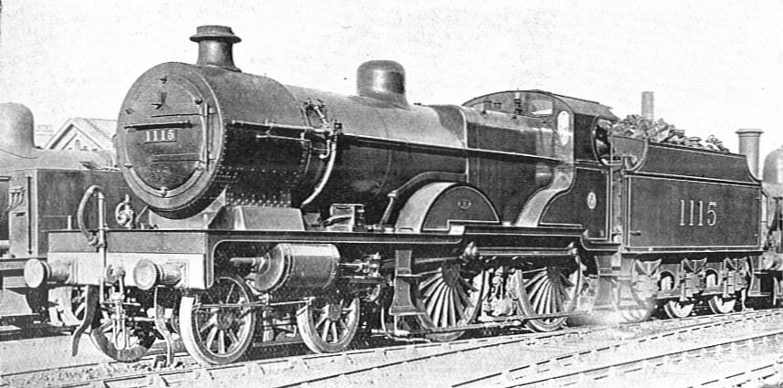 Typical British 4-4-0 Express Engines for Medium-weight Trains 3-Cylinder Compound Locomotive, LMSR